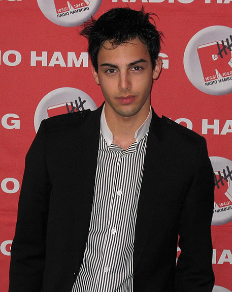 Darin at the "Radio Hamburg Top 819"